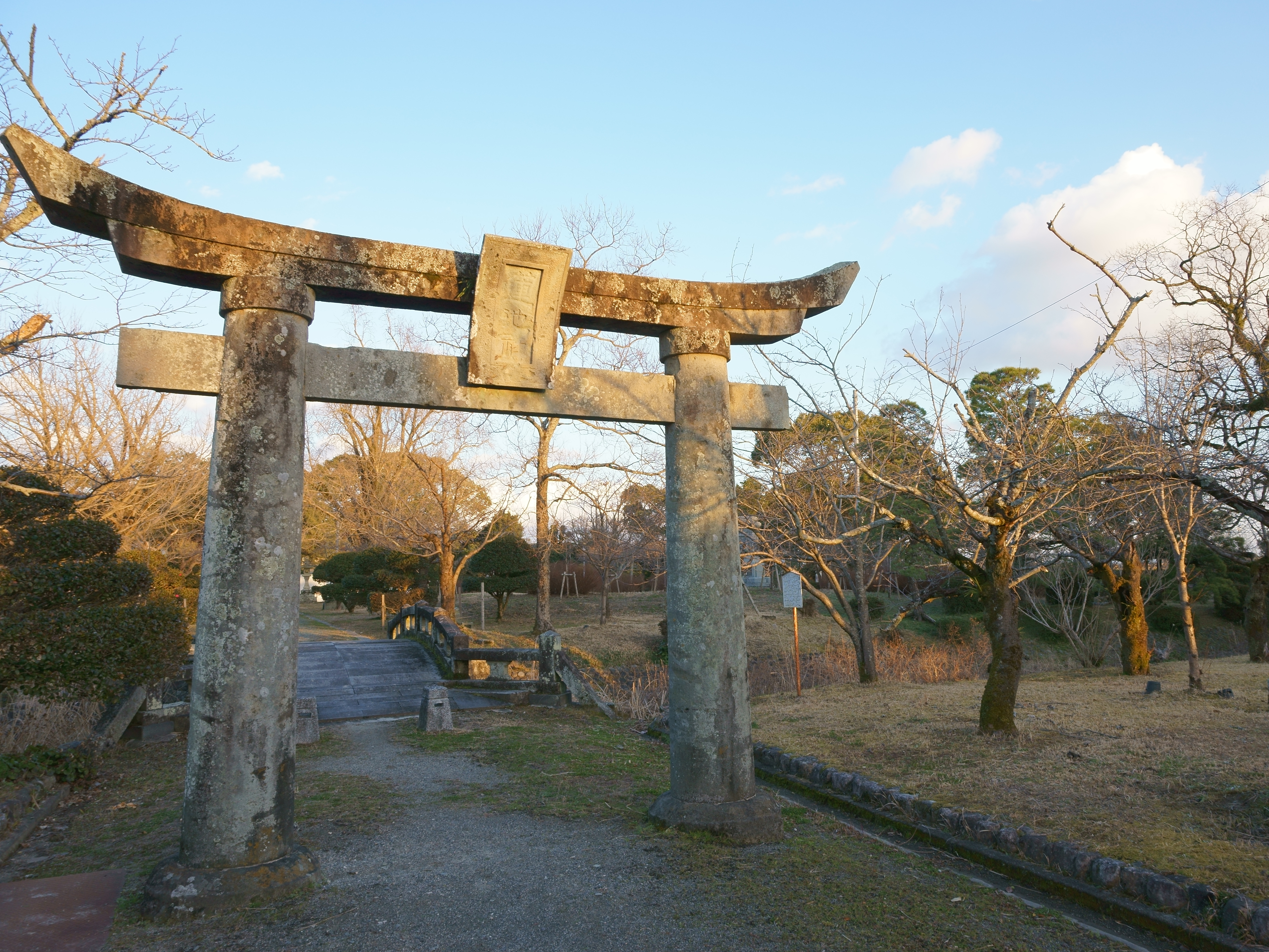 蓮池神社の鳥居と、石橋が架かる蓮池城の堀跡。佐賀市蓮池町。